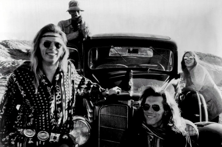 Photo of the musical group Hot Tuna. In front, left to right are Jack Casady and Jorma Kaukonen, founders and former Jefferson Airplane members. In back are Papa John Creach and Sammy Piazza.